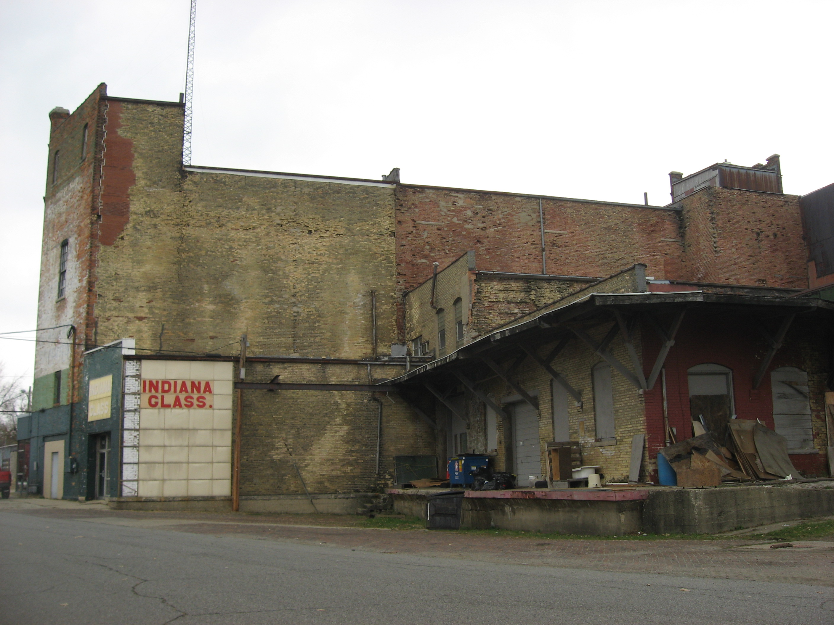 Part of the South Bend Brewing Association complex, located at 1636 W. Lincolnway (U.S. Route 20) in South Bend, Indiana, United States. Built in 1905, it is listed on the National Register of Historic Places.